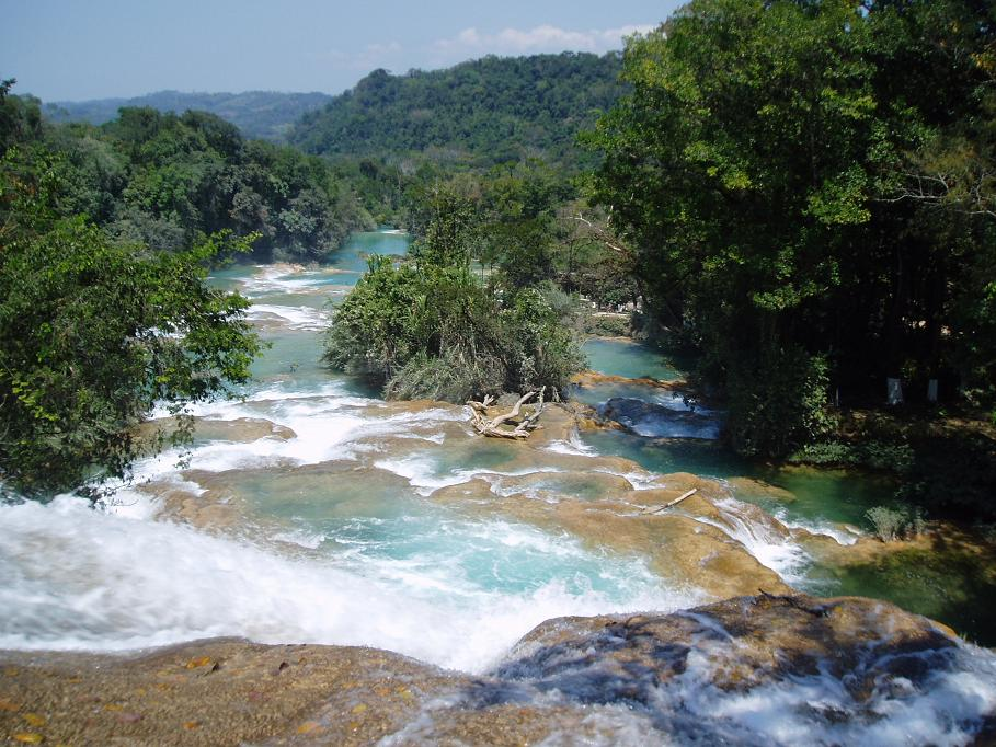 Downwards look from Cataratas de Agua Azul (Waterfalls of Blue Water) in Chiapas, Mexico Picture taken in March 2006